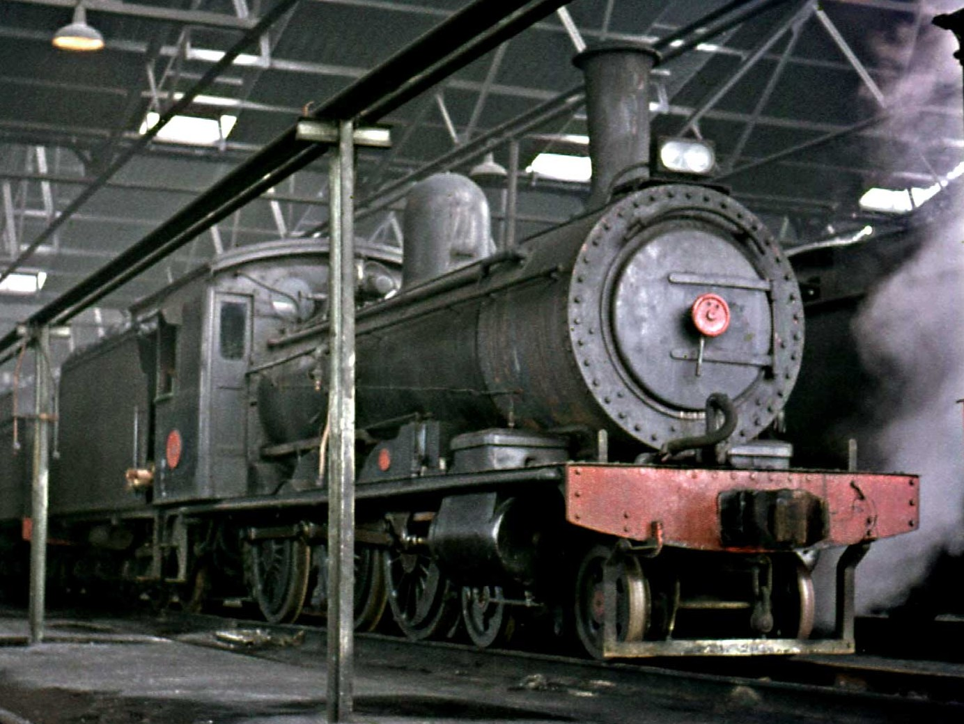 Class 6B & Type XE tender, Paardeneiland shed